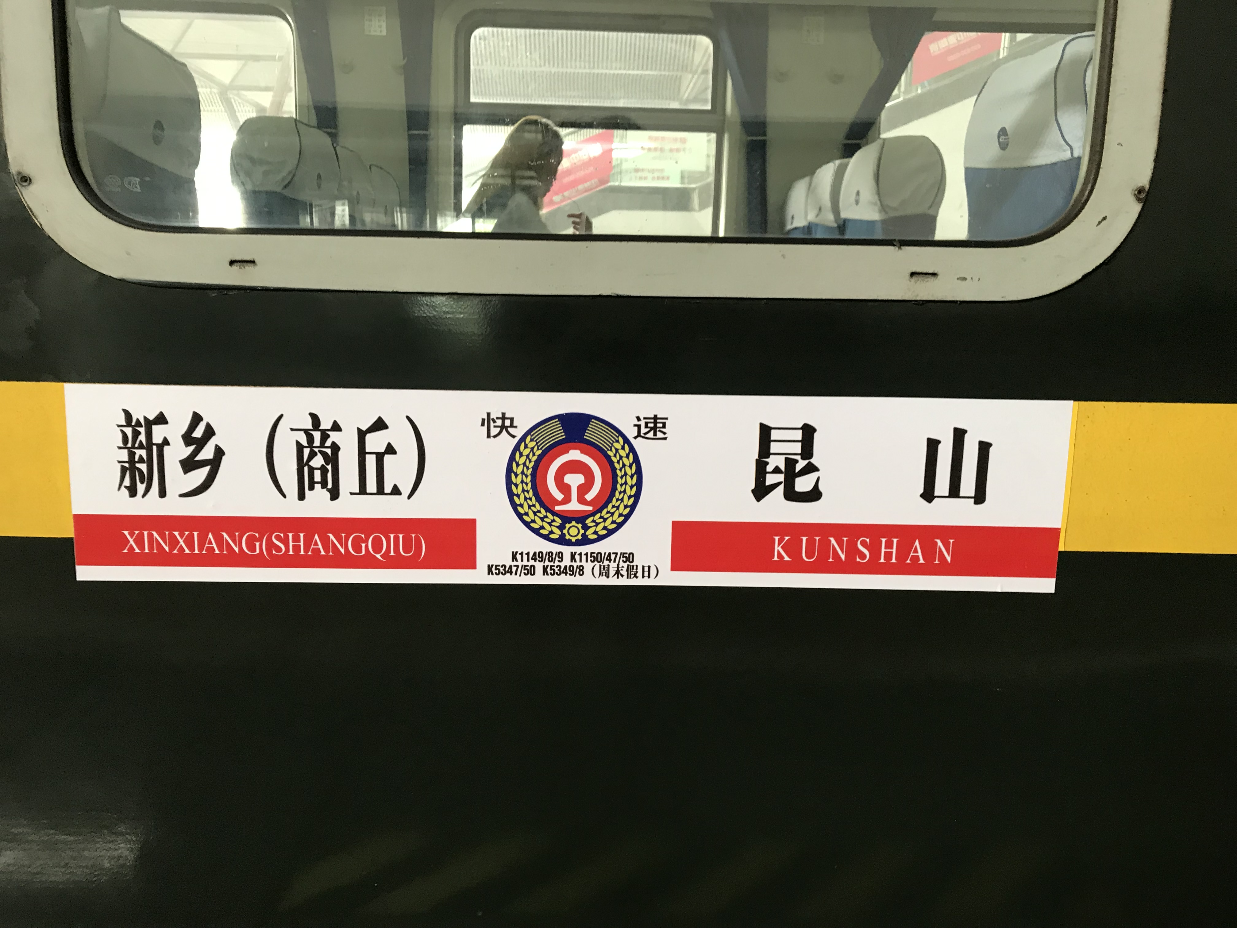 Just extended to Kunshan on July 10th.